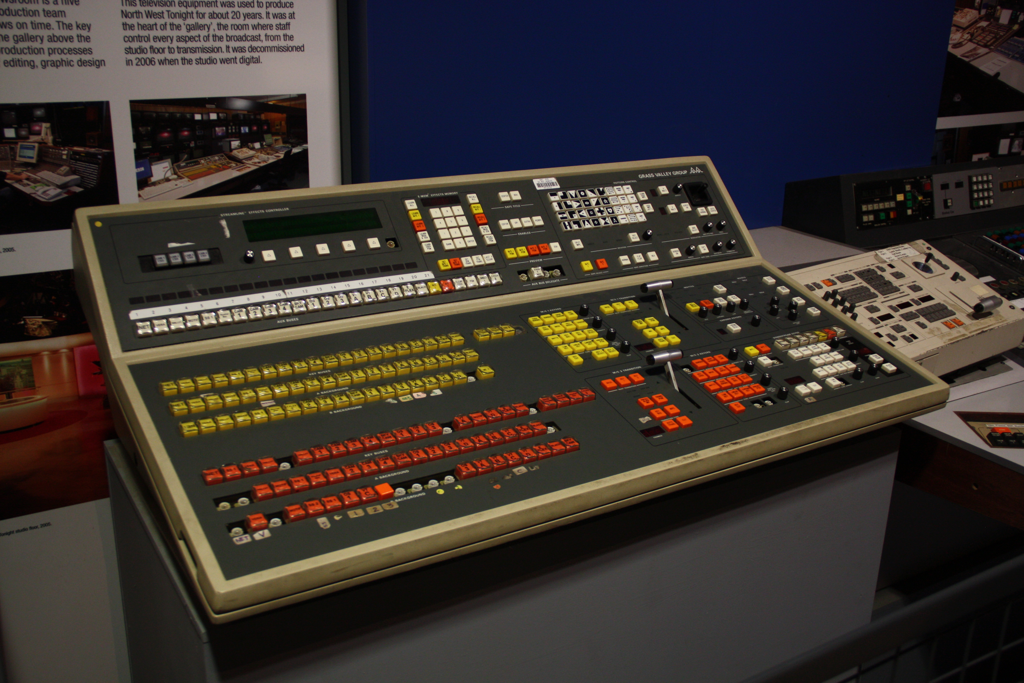 Grass Valley Group Vision Mixer from BBC Manchester TV news studio. Decomissioned in 2006 when the studio when digital.